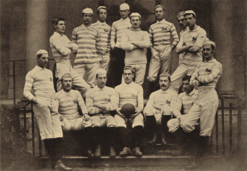 Cambridge University rugby union team that faced Oxfod in The Varisty Match of 1880. Back Row (L-R): R.M.Yetts, J.G.Tait, A.R.Don Wauchope, E.Rice, S.Pater, J.A.Bevan, E.Storey, W.M.MacLeod. Front Row: E.S.Chapman, H.G.Fuller, J.T.Steele, C.P.Wilson, P.T.Wrigley, H.Y.L.Smith, A.S.Taylor.